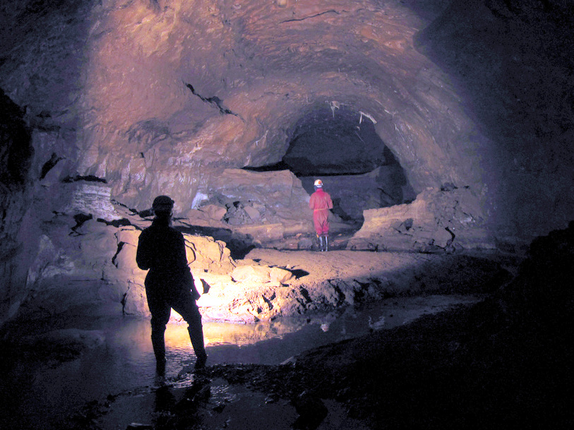 Duke Street in Ireby Fell Cavern, beyond the first sump. A fine example of a misfit stream in a large phreatic tunnel.